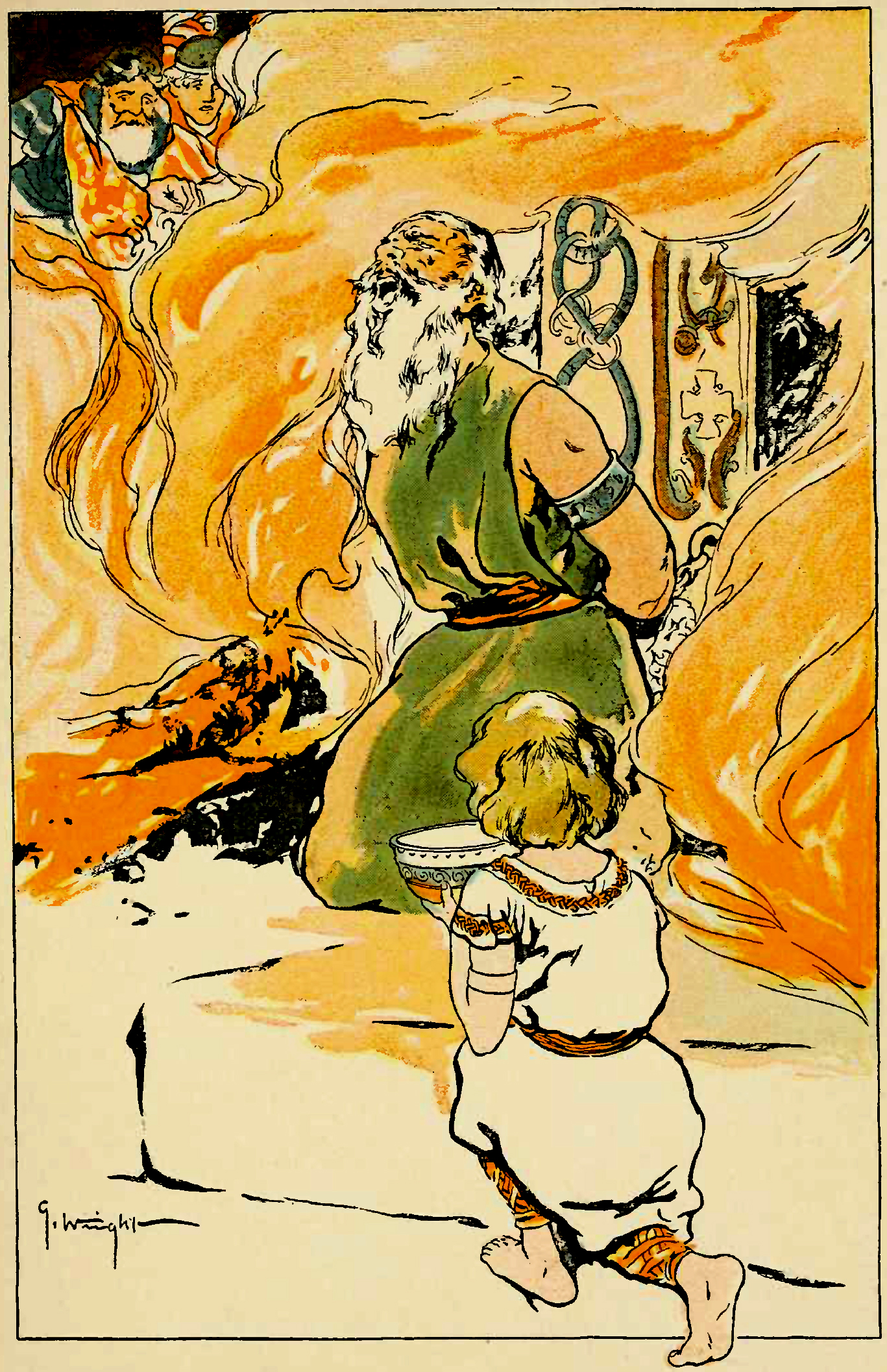 Captioned as "No one gave him a thought of pity save little Agnar". Odin, disguised as Grímnir, is offered something to drink by Geirröd's son Agnar, as described in Grímnismál.